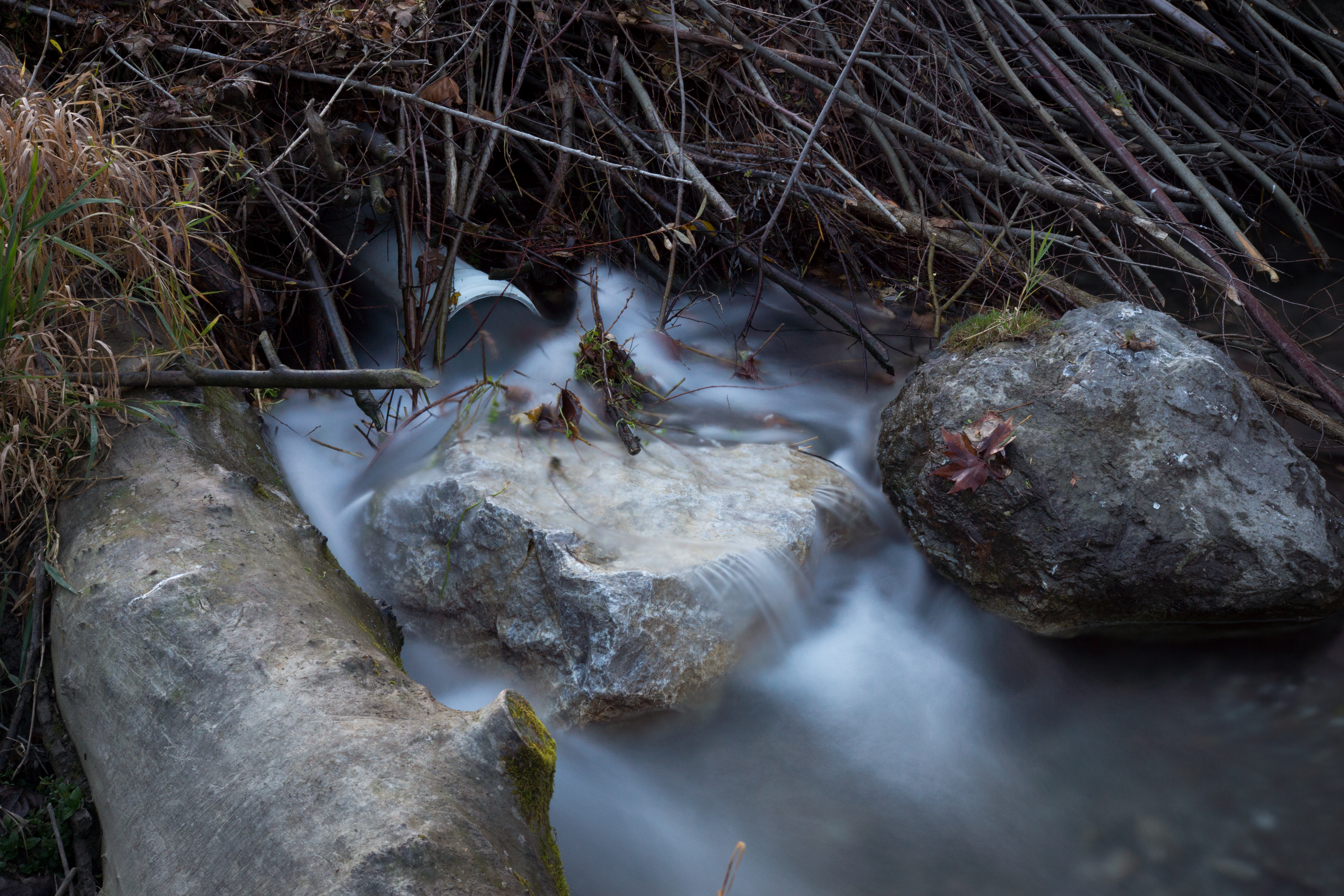 A pipe was laid through a beaver dam to make it passable for migratory fish during spawning season; master thesis; Innsbruck, Austria